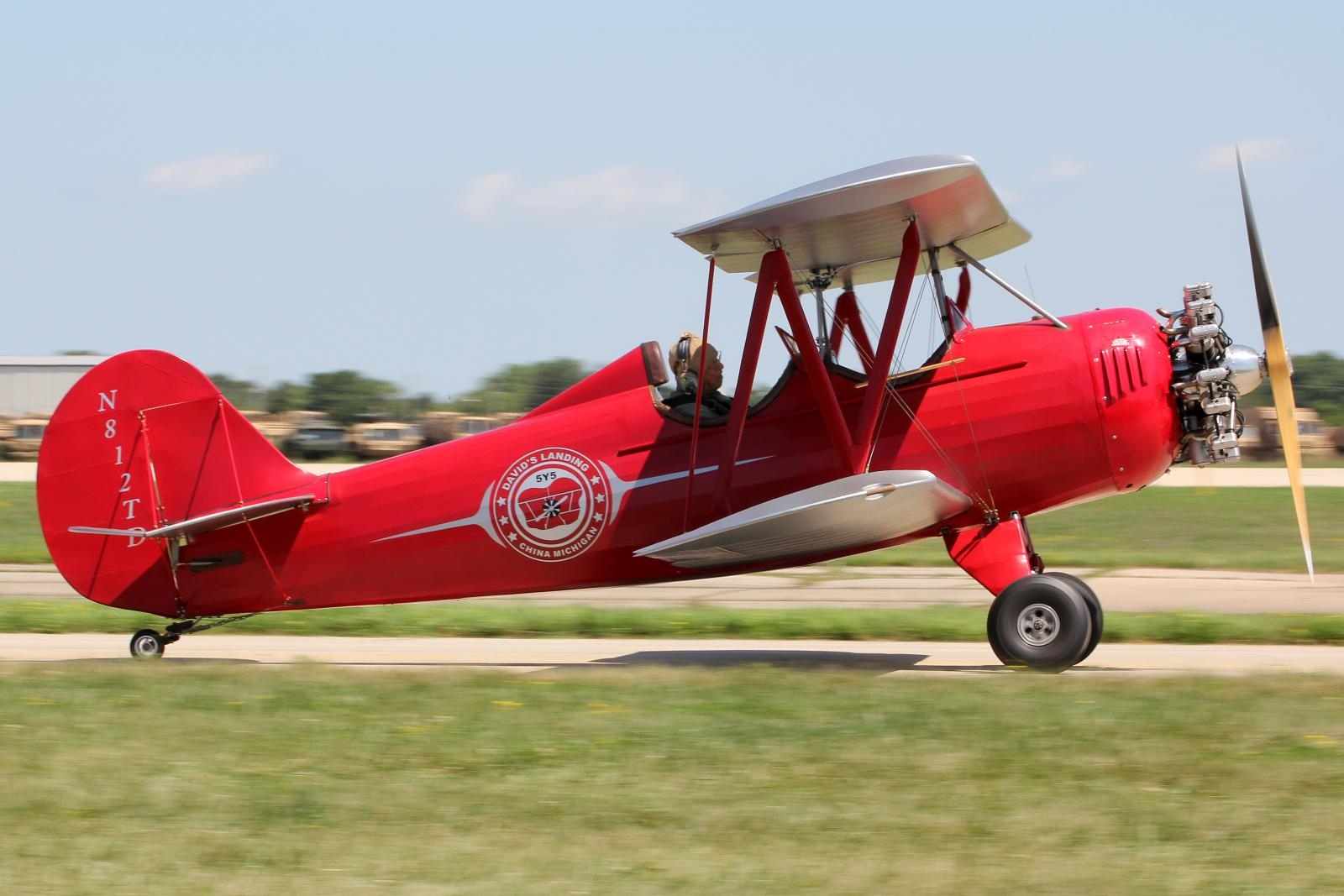 Shirey David A Fisher Celebrity (N812TD)